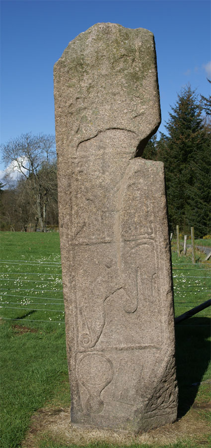 Maiden Stone (near Inverurie, Scotland) - back